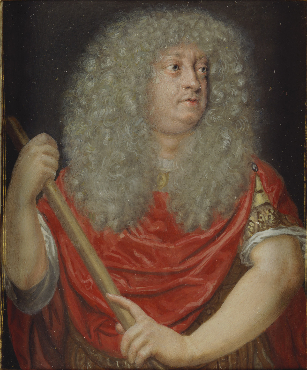 Ernest Augustus, Elector of Hanover (1629-1698) Provenance: First recorded by George Vertue in Queen Caroline's Closet at Kensington Palace in 1743